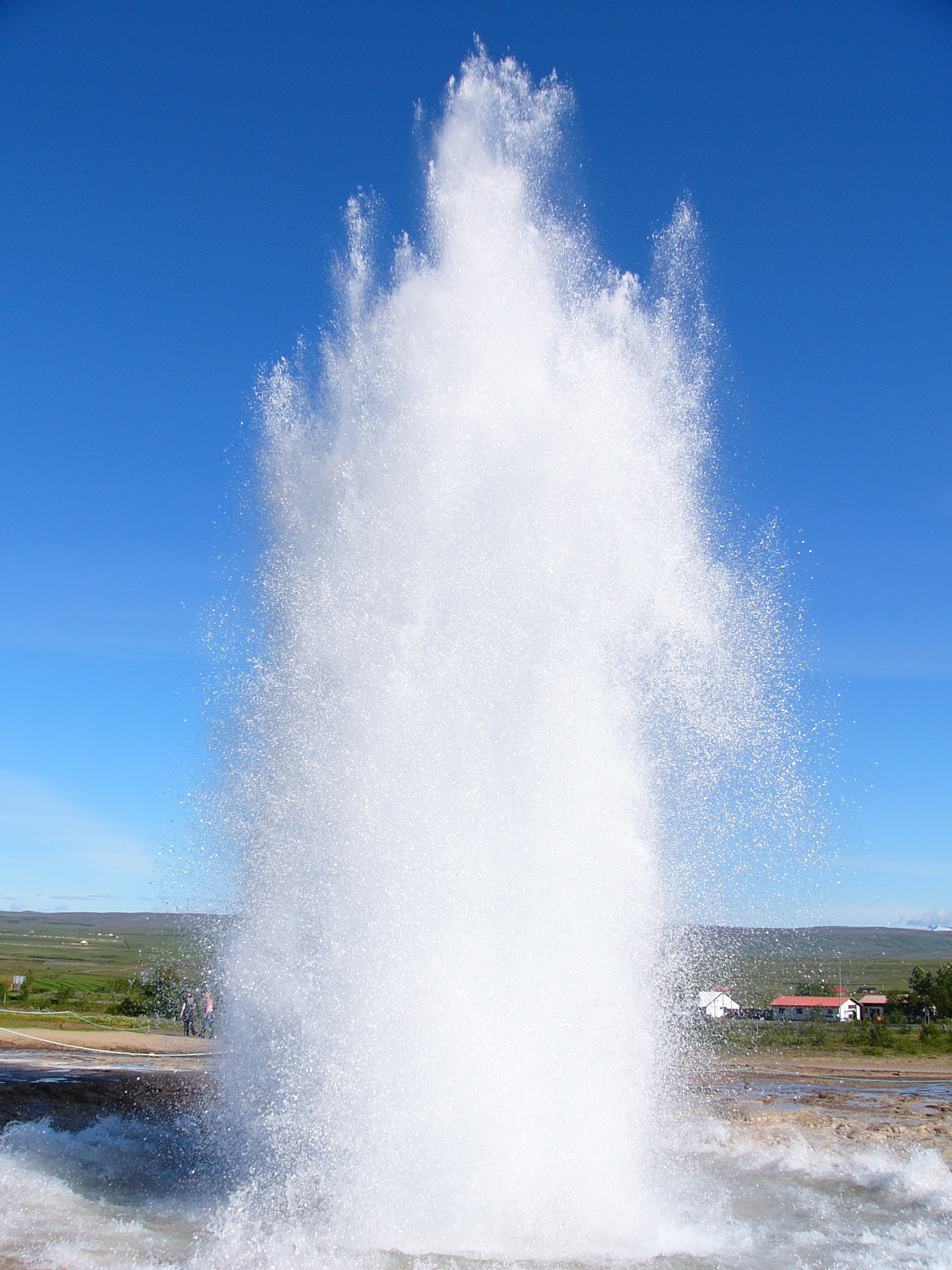 Simon Cole Strokkur, Iceland 24/07/2005